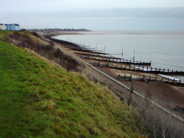 Beach At Old Felixstowe Looking north-east towards Felixstowe Ferry, Woodbridge Haven and Bawdsey.